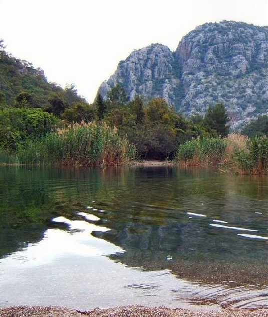 Mount Olimpos, Turkey